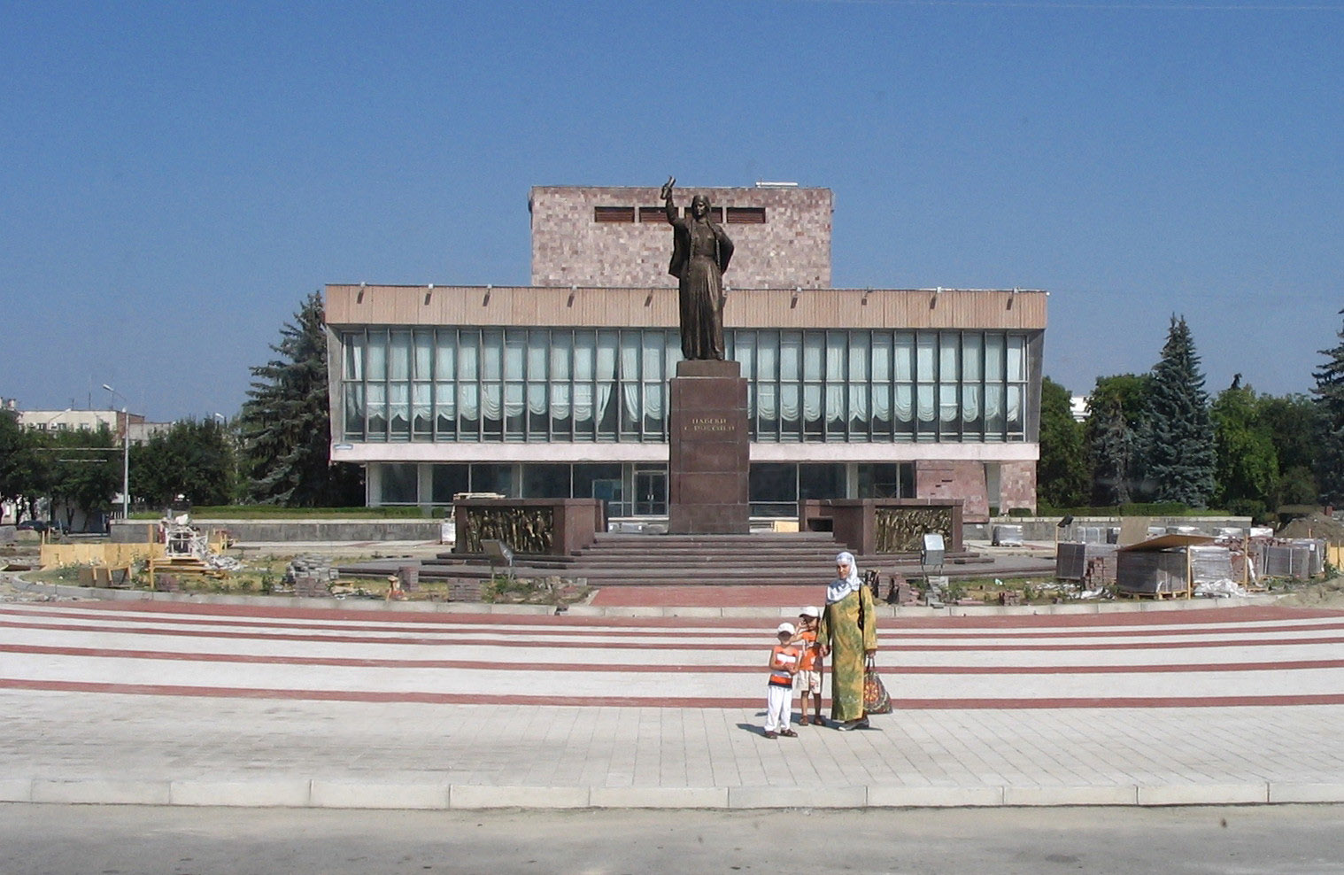 Nalchik, State Musical Theatre, Monument